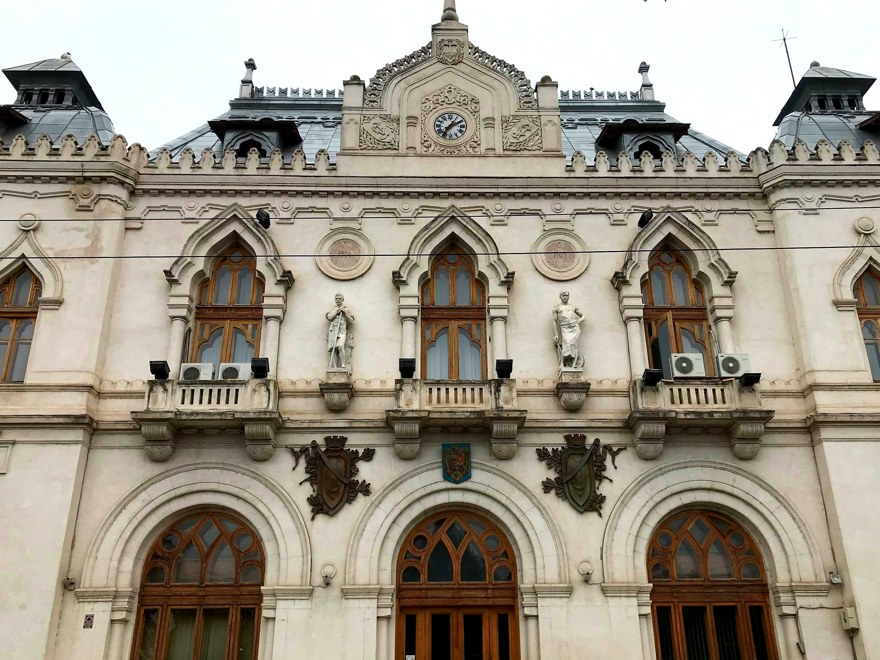 Built in 1904-1905 according to the plans of architect Ion Mincu, the building was inaugurated on April 27, 1906